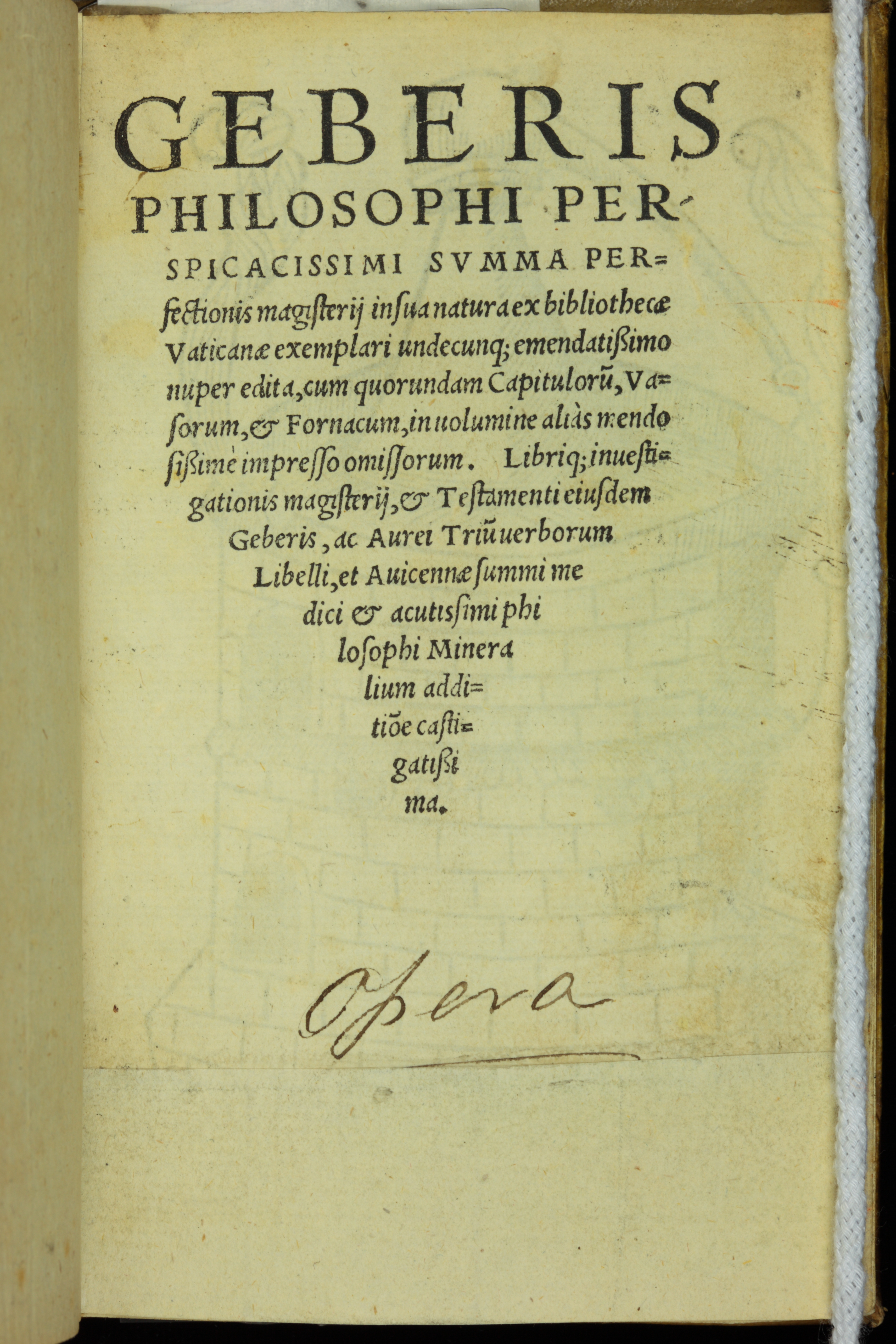 Title page from Geberis philosophi perspicacissimi, summa perfectionis magisterii in sua natur ex bibliothecae Vaticanae exemplari undecunq : emendatissimo nuper edita, cum quorundam capitulorū, vasorum, et fornacum, in volumine aliàs mendosissimè impresso omissorum / libriq investigationis magisterii et testamenti eiusdem Geberis, ac Aurei triu verborum libelli et Avicennae summi medici et acutissimi philosophi mineralium additiõe castigatissima. Venetiis : Apud Petrum Schoeffer ... ; Brixiensem : Apud Dominum Ioannem Baptistam Pederz, 1542. Alchemical theories of matter were essential to the dream of transmutation. Among the most influential sources was the Summa perfectionis, ascribed to the Arab alchemist Abū Mūsā Jābir ibn-Hayyān (latinized as Geber). But the volume was in fact written in 13th-century Europe, probably by the Franciscan friar Paul of Taranto.